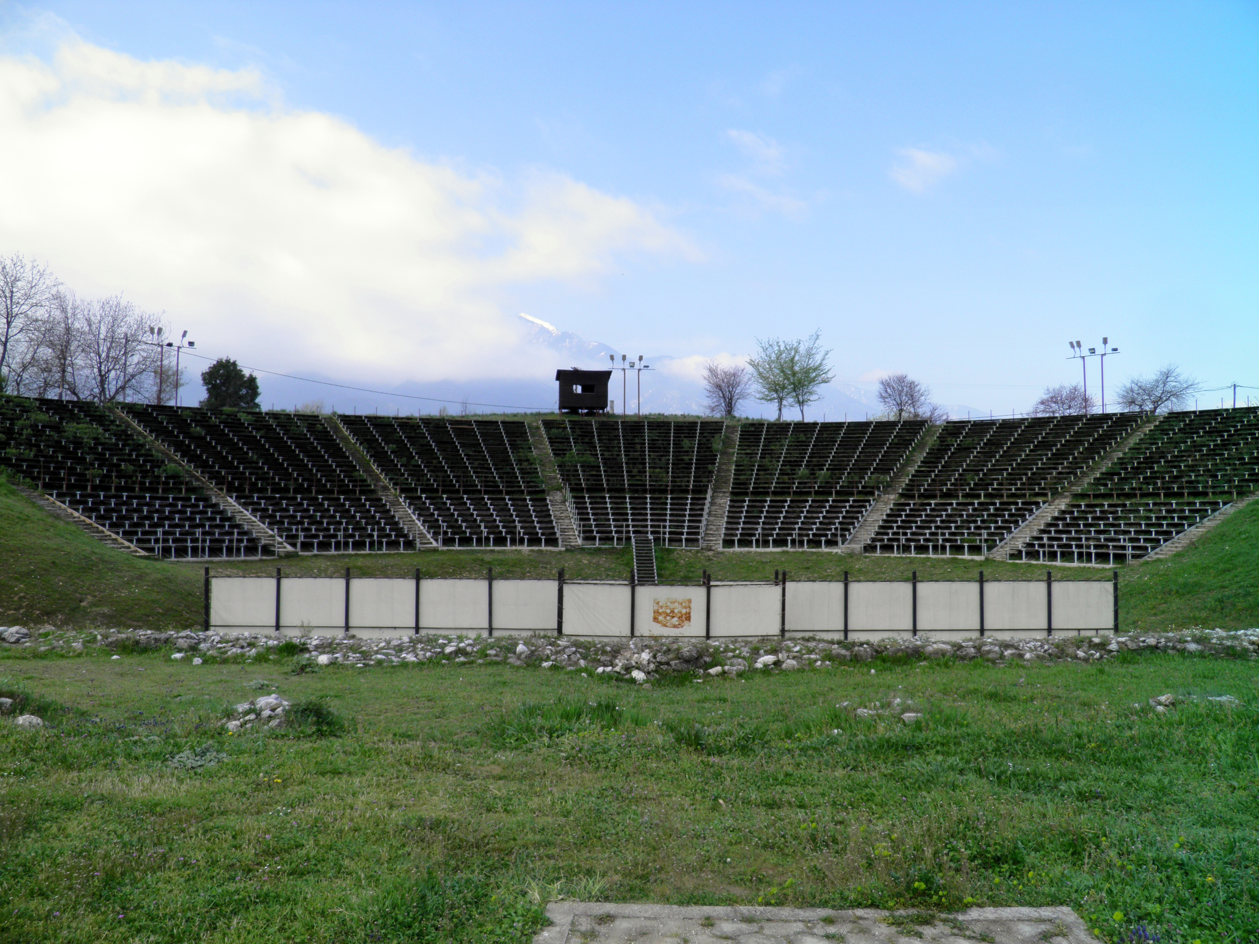 In 1806 the British surveyor traveller W.M. Leake recognised a large embankment outside the ancient city, as the site of the theatre of Dion, where the Bacchae of Euripides sang enchantingly before King Archealos about Pieria and Olympos with the words «there it is lawfull of the Bacchae to celebrate their rites». The archaeological research began in 1970 and continued thereafter for a number of seasons. It revealed that the cavea (orchestra) was constructed of earth fill built up in repeated layers. Its back was positioned to the west. The stepped seats built by large slabs in Hellenistic times, and had been repaired many times. The identification of eight rows of plinths was crucial for the reconstruction of the theatre. The theatre in this from is Hellenistic in date. On this same site stood the theatre of the classical period.